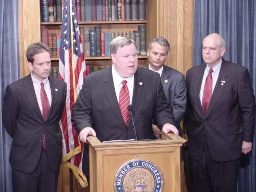 U.S. Rep. Phil English (R-PA) along with Reps. Mark Green (R-WI), Chris Chocola (R-IN) and Robin Hayes (R-NC) at a press conference in the U.S. Capitol building announcing English's bill, H.R. 3004, the Currency Harmonization Initiative through Neutralizing Action (CHINA) Act of 2005, to impose automatic tariffs if the Treasury Department finds China's exchange rate policy conforms with the WTO definition of currency manipulation.